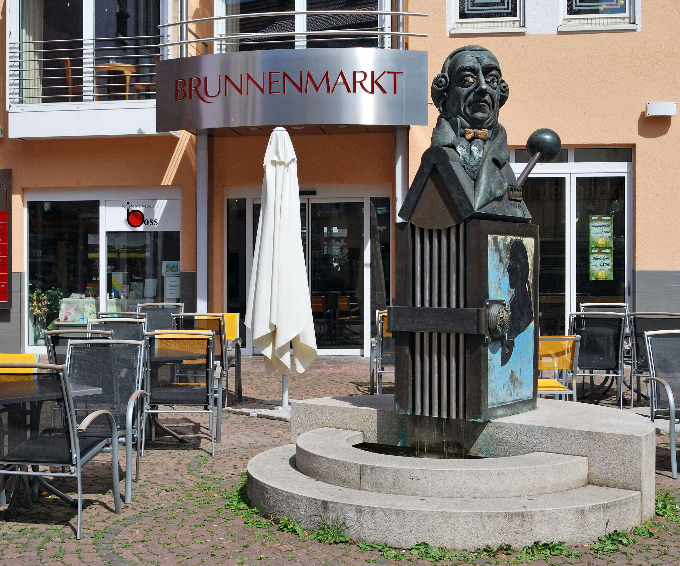 The bronze well sculpture in Gerlingen was created 1988 by the German sculptor Jürgen Goertz in commemoration of Johann Caspar Schiller, the father of the German poet Friedrich Schiller. Johann Caspar Schiller lived in Gerlingen, he is burried at the St. Petrus church in Gerlingen.